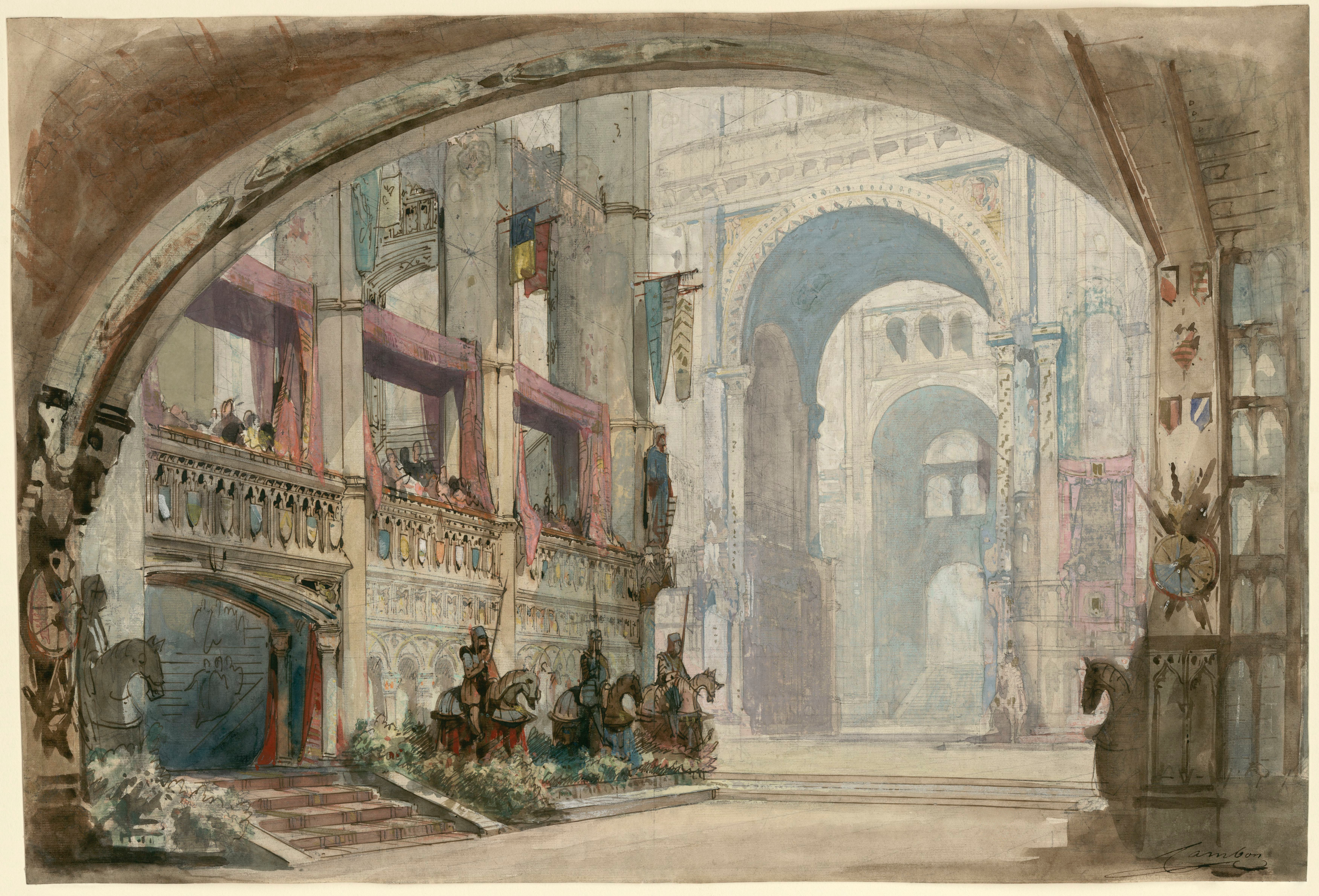 Set design for Gioachino Rossini's Robert Bruce, Act III, Scene 3 (La draperie s'ouvre découvrant le rempart de la forteresse "The curtain opens on the ramparts of the fortress [Sterling Castle]") Pencil, pen, watercolor highlights, gouache, wash and ink; 390 x 578 mm